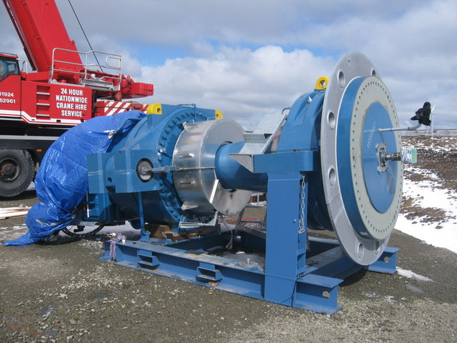 Gearbox , Rotor Shaft and Disk Brake Assembly for Turbine No 3. Since this photograph was taken this gearbox and disk brake unit is now installed in the nacelle on the top of Turbine Tower No 3 753998 755295 696211 696963 633643 698455 Turbine details: Tower Height: 60m Blade Length: 40m Total Max Height: 100m Manufacturer: Nordex Model: N80